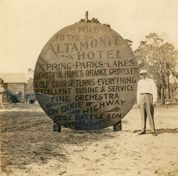 Accompanying note: "Photograph of Herbert Ehrhardt Fuller standing next to an Altamonte Hotel sign which was erected near Fuller's Store in the 1920s. The sign reads '1/2 mile to the Altamonte Hotel, Spring, Parks, Lakes, Beautiful homes, Orange groves, etc. Golf course, Tennis, Everything excellent. [Cuisine] & Service, Fine orchestra. On Dixie Highway. Geo. E. Bates & Son, Owners & Propr's.'."